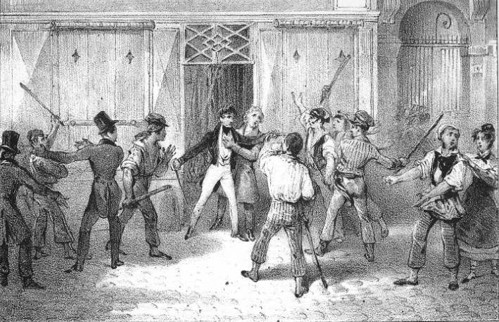 The arquebusier Le Page giving weapons to the crowd during the French Revolution of July 1830